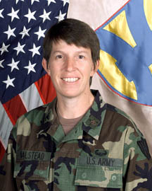 COL Rebecca S. Halstead as deputy commander of the 21st Theater Support Group